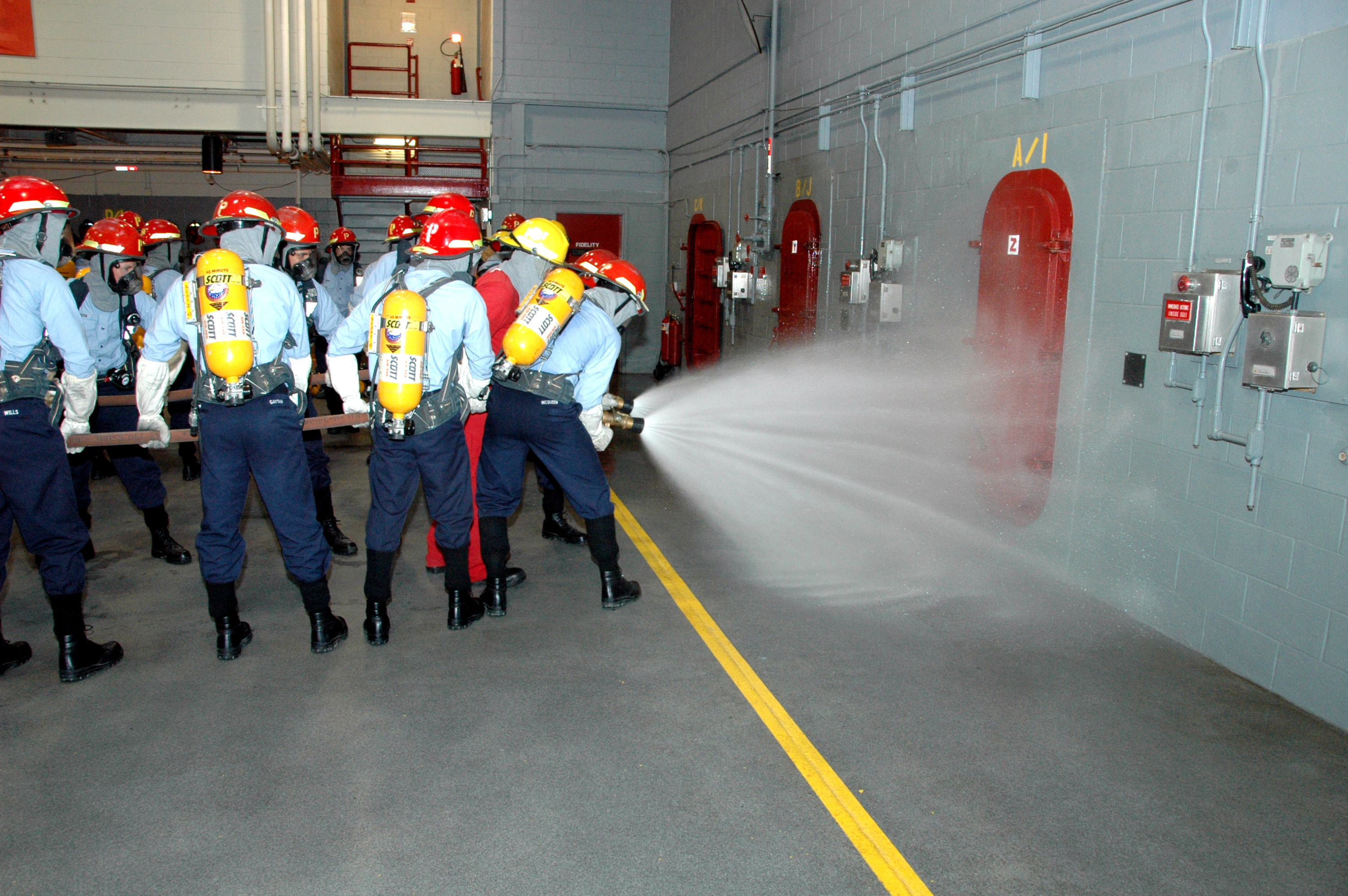 070814-N-8848T-050 NAVAL STATION GREAT LAKES, Ill. (Aug. 14, 2007) – Recruits from Division 253 charge the nozzle of a fire hose at Recruit Training Command’s fire fighting school. Division 253 is the third Special Warfare Operations division to go through recruit training. The division is made up of rating candidates for special warfare operator, special warfare boat operator, Navy diver and explosive ordnance disposal (EOD). It is part of a new Navy and Special Warfare Command initiative to grow the ranks of SEALs, littoral and riverboat squadrons, dive units and EOD detachments. U.S. Navy photo by Mr. Scott A. Thornbloom (RELEASED)